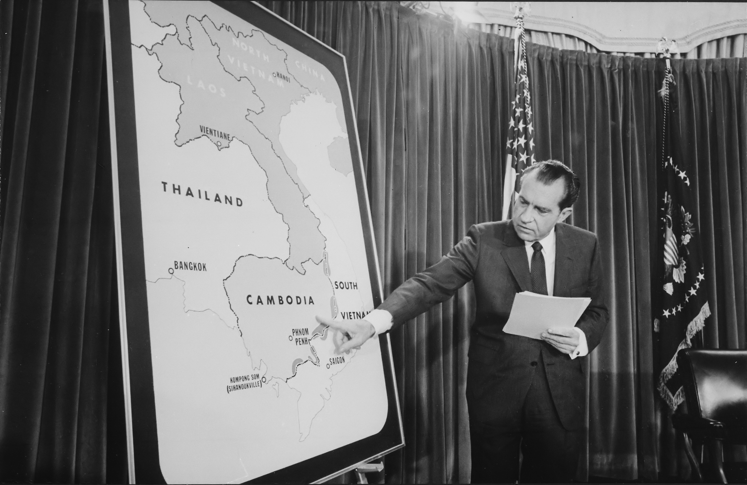 President Nixon points out the NVA sanctuaries along the Cambodian border in his speech to the American people announcing the Cambodian incursion.